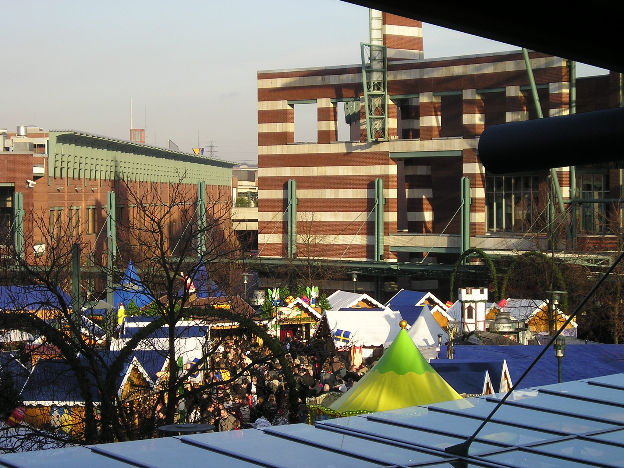 Christmas market at the CentrO